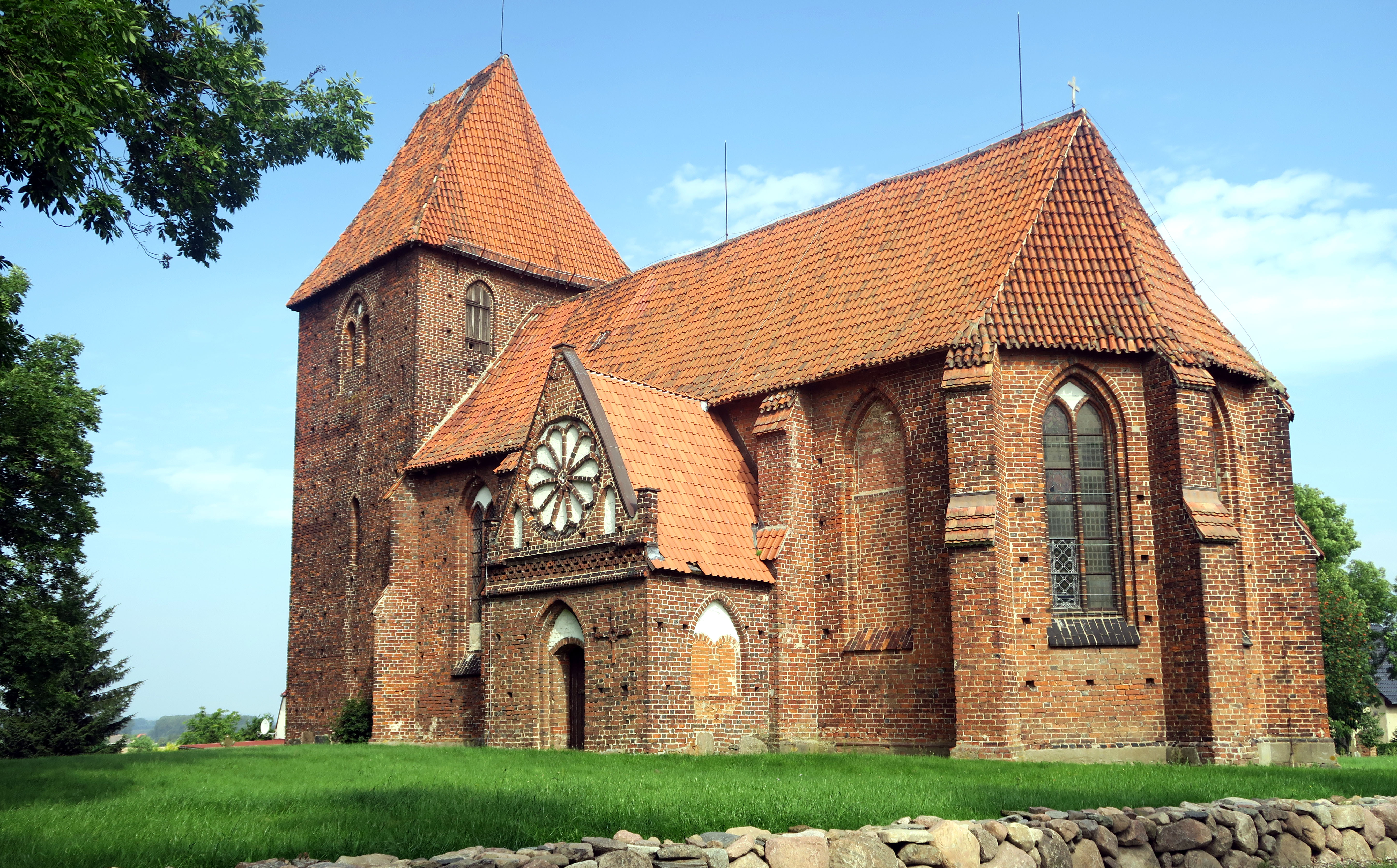 Church St. Laurentius in Hornstorf, Mecklenburg-Vorpommern, Germany